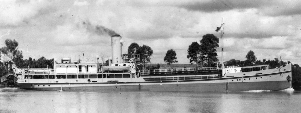 Steam dredge Echeneis, Brisbane, 1953 Suction hopper dredger launched by Walkers Limited in 1953. (Description supplied with photograph.).